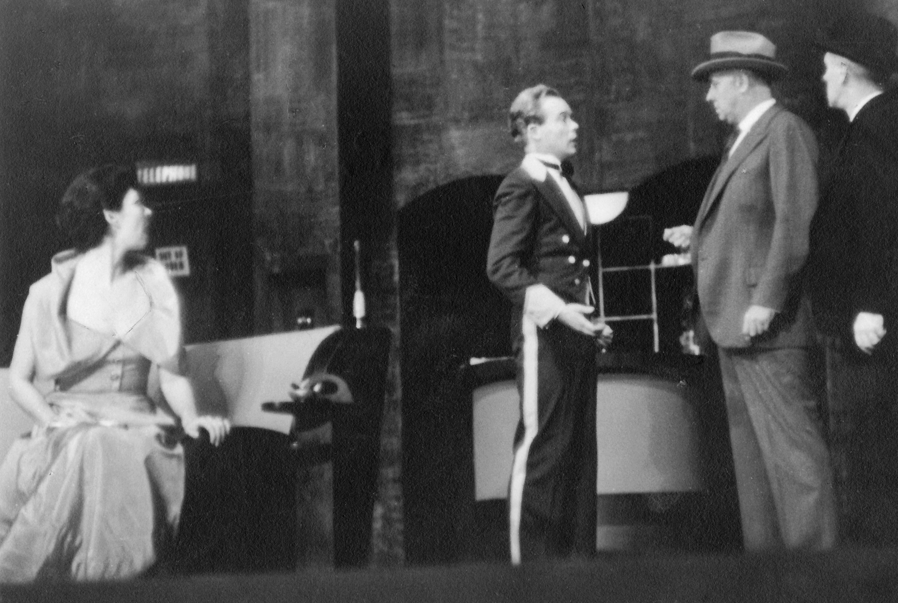 Photograph of Ilka Chase, Myron McCormick and others in the 1934 stage production Small Miracle. Lead feature story is titled "A Playgoer's Discoveries" (no author credit). Caption reads as follows: One of the lesser threads in the plot: the hat check boy (Myron McCormick) seems to have stolen the diamond pin of Mrs. Temple (Ilka Chase). Marginal note written on face of original photograph used for magazine printing reads as follows: Small Miracle Act III Eddie is questioned by the police capt. regarding the missing jewelry. [The role of the police captain, Captain Seaver, was played by Robert Middlemass].